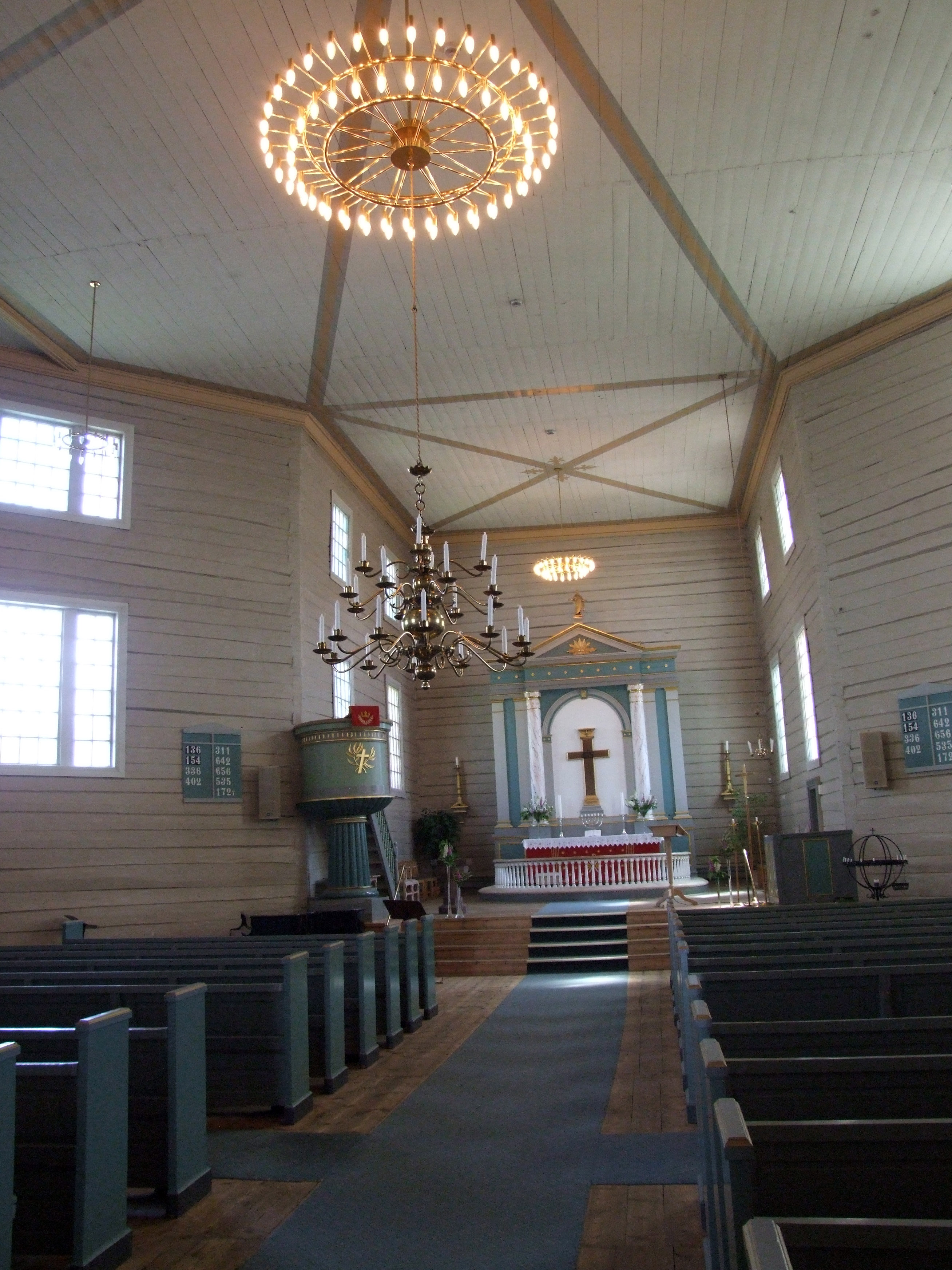 The inside of Flekkefjord Church, 2009